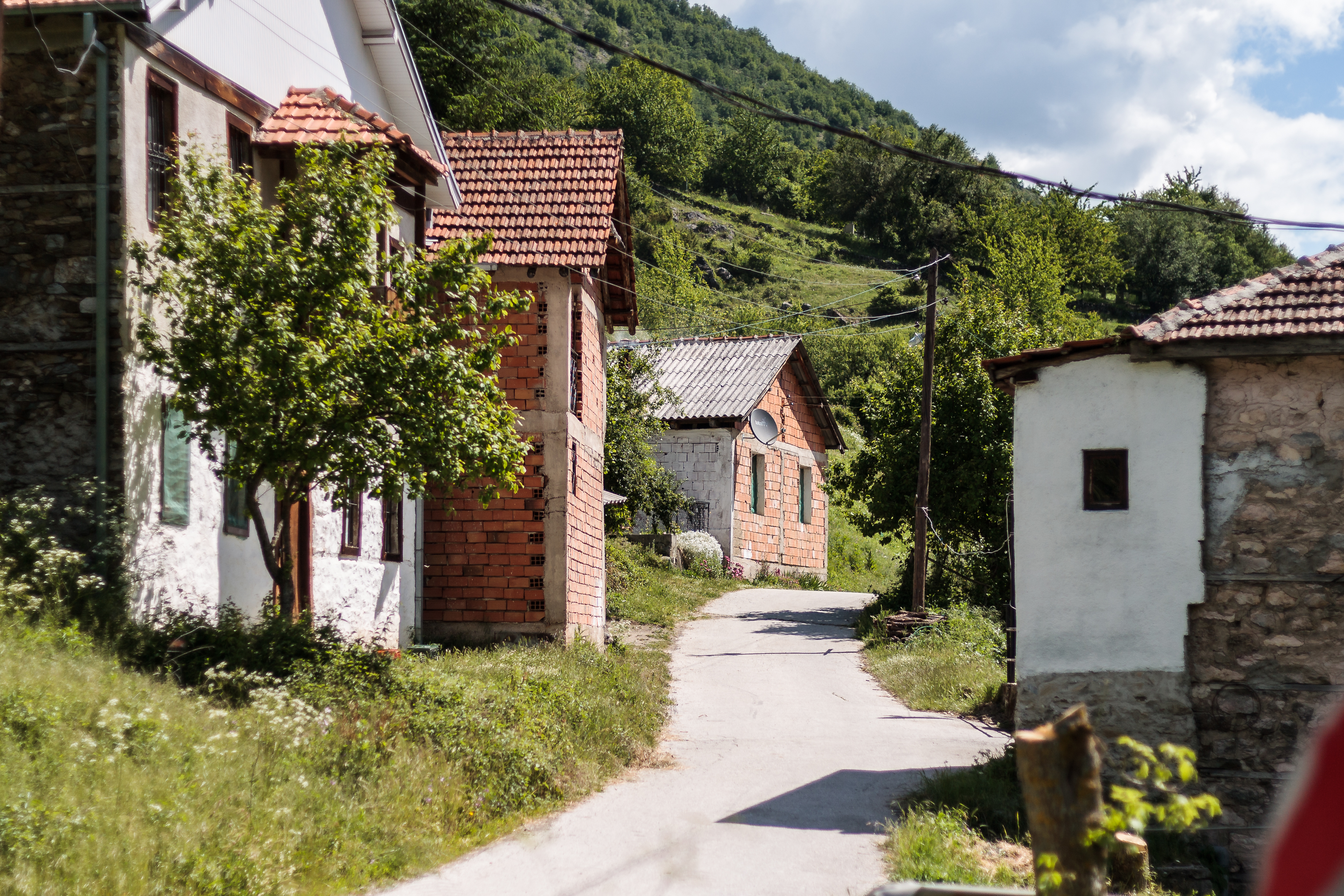 View of the village Golemo Ilino